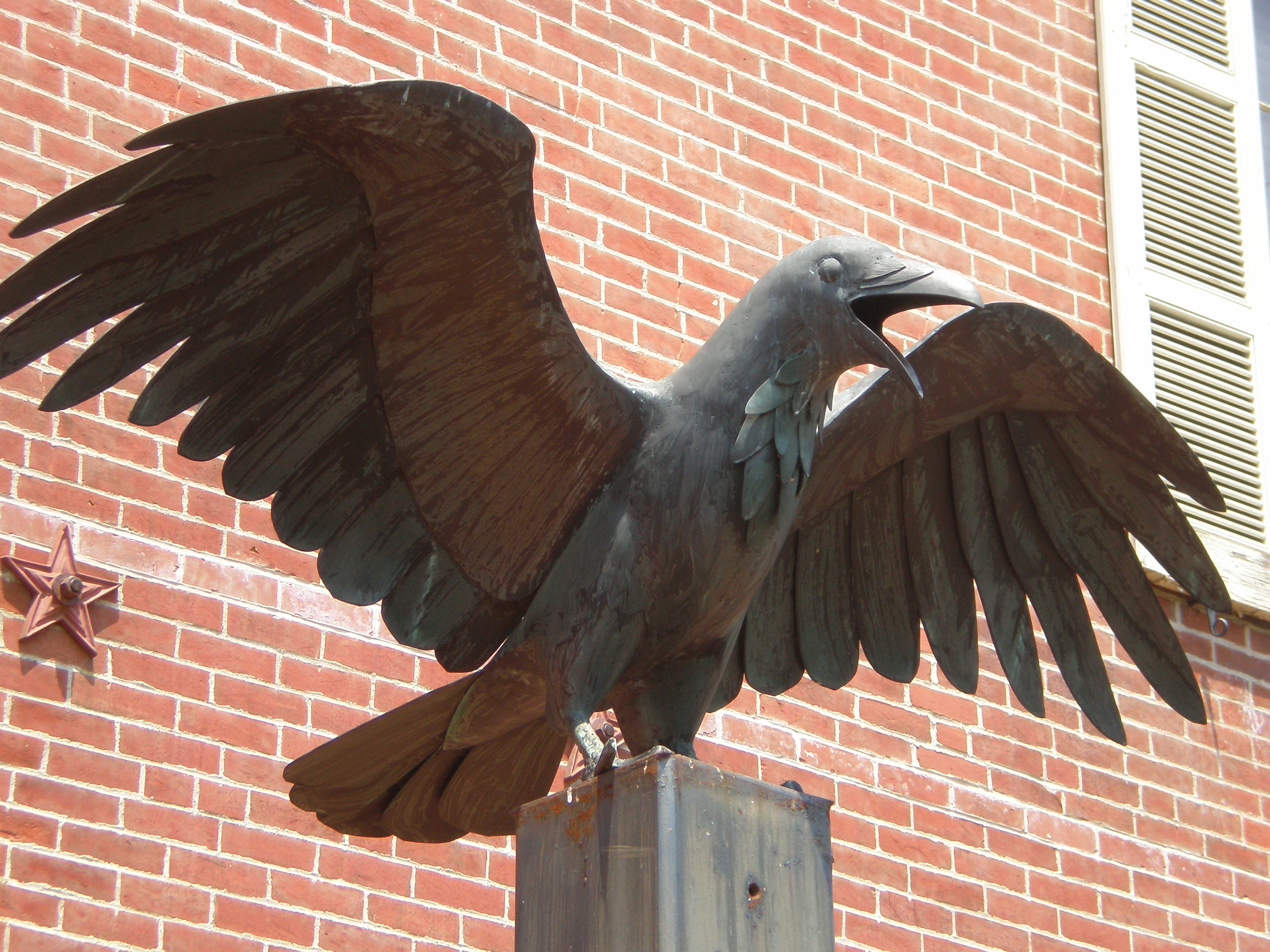 Detail of the statue of a raven on the grounds of the Edgar Allan Poe National Historic Site in Philadelphia, Pennsylvania (USA).